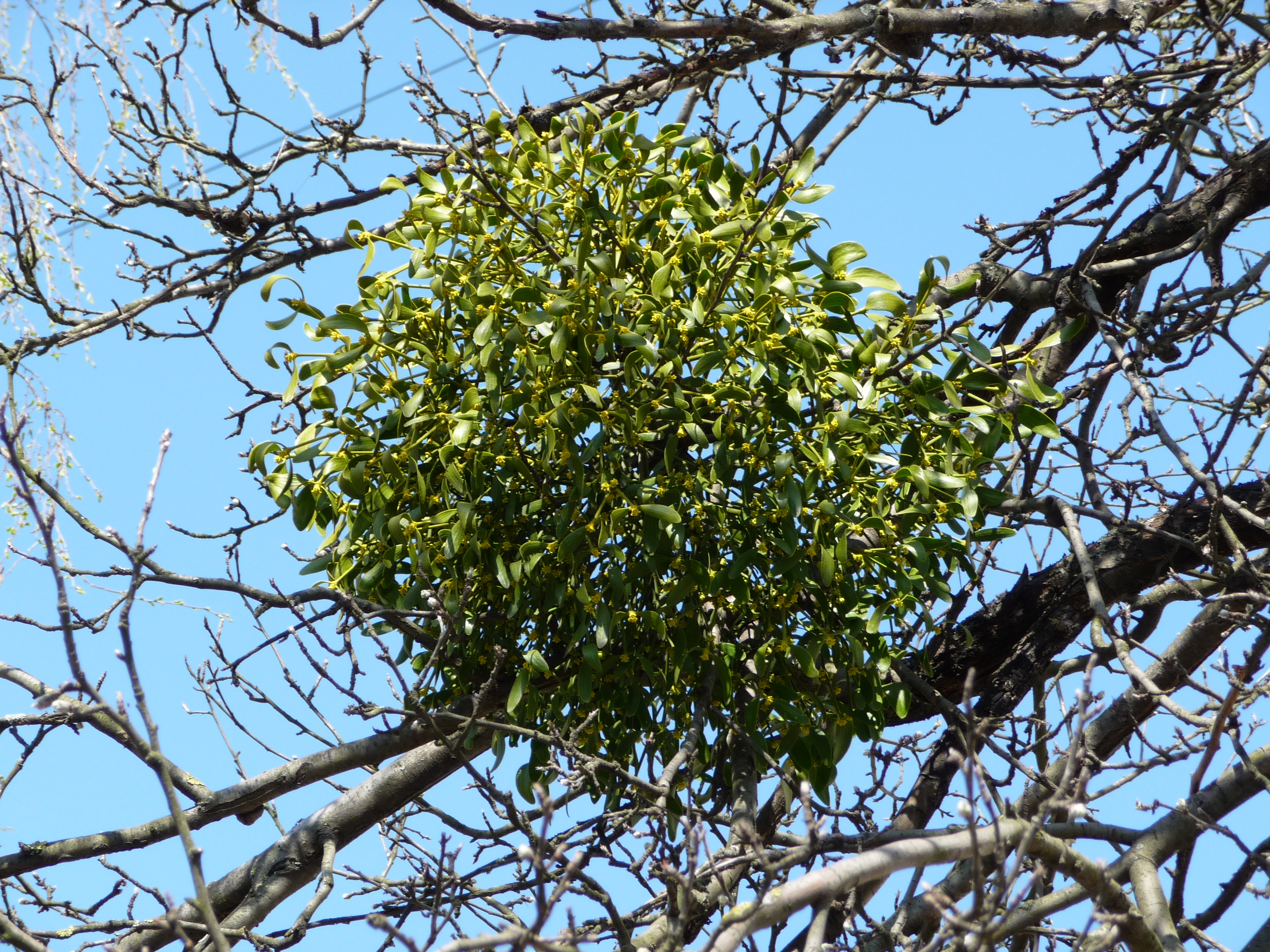 Viscum album on the apple-tree. Yellow blossom viscum. Ukraine.